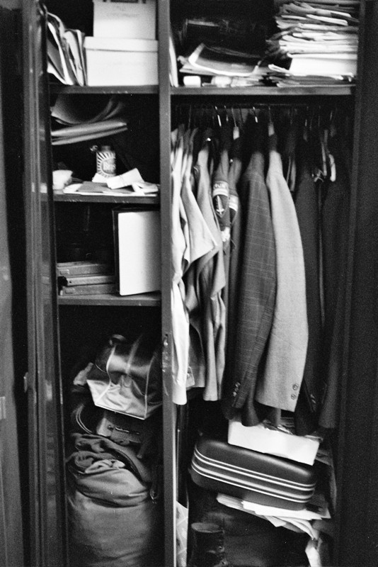 Photo by R. W. Rynerson, Winter 1969-70. Diverse duties and life in the sophisticated city of West Berlin resulted in a jammed locker. Ever-present brass polish is visible on a shelf in mid-left. Troops juggled military and diplomatic roles.